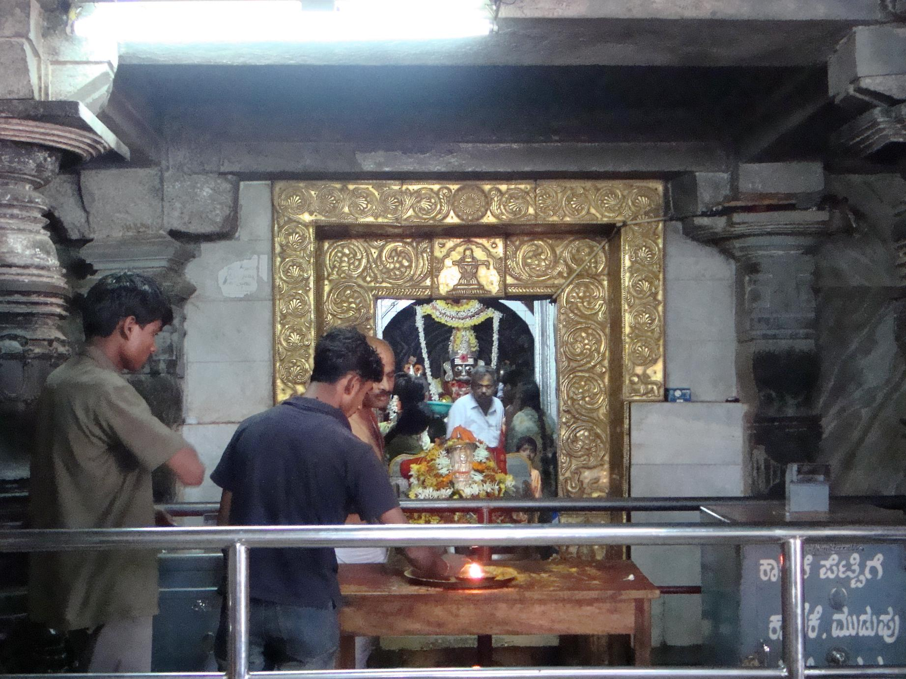 Mylara Lingeshwara Temple at Mylara, Bellary District, North Karnataka, India Source and Author : Manjunath Doddamani, Gajendragad / Hubli, Karnataka(India)